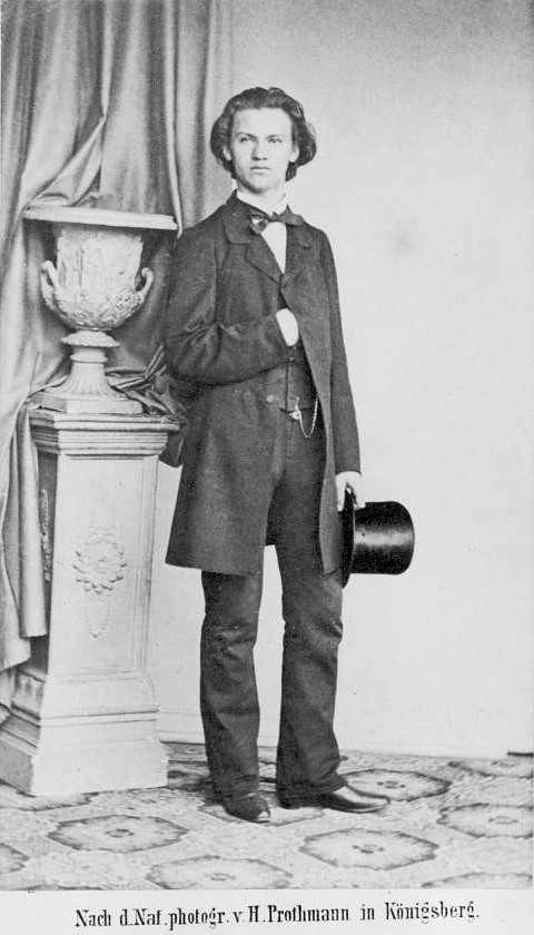 Danish cellist of Czech origin Franz Xaver Neruda (1843—1915)